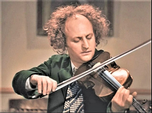 Colorized photo of Larry Fine in the 1936 film Disorder in the Court